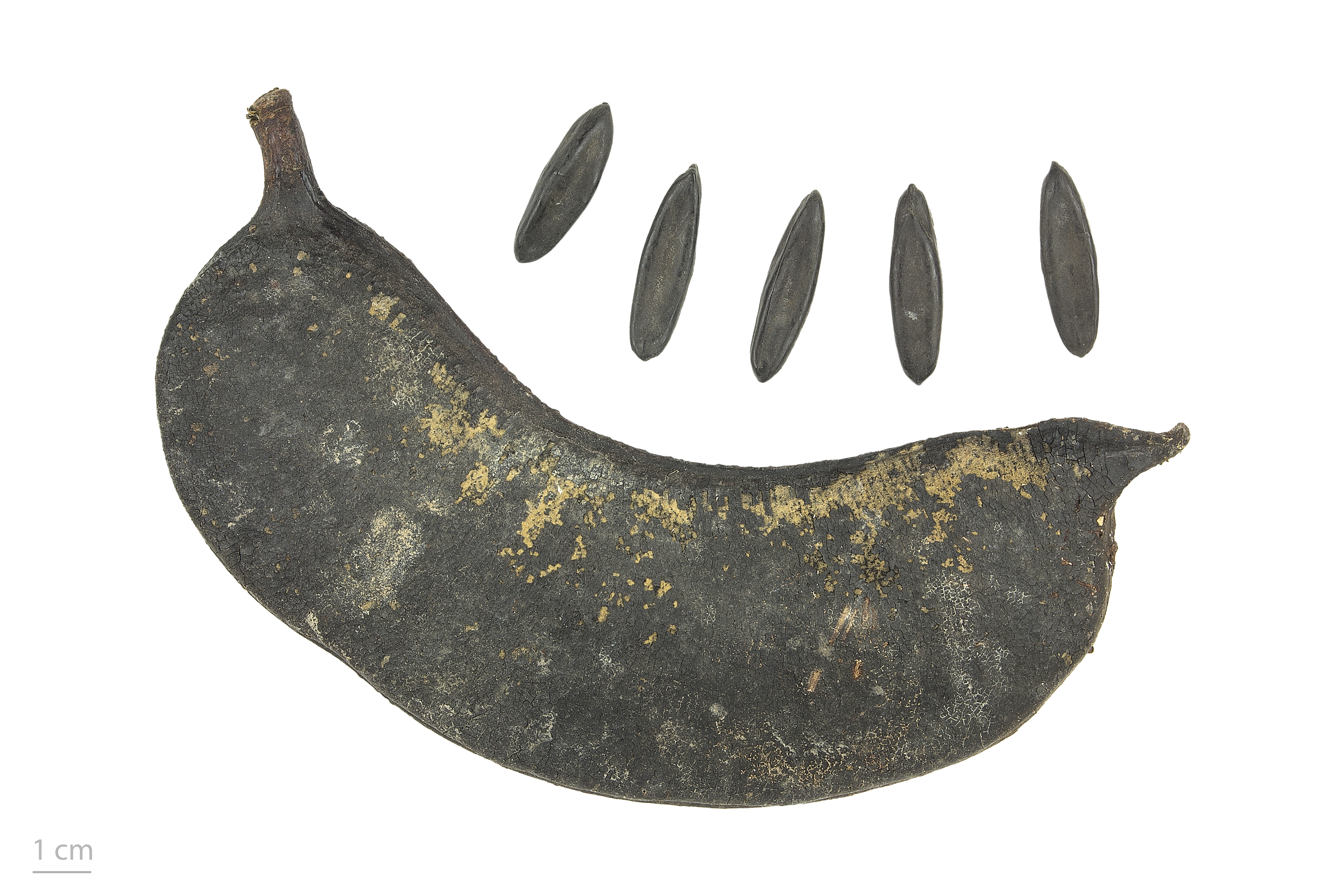 Parkia multijuga, -, seeds